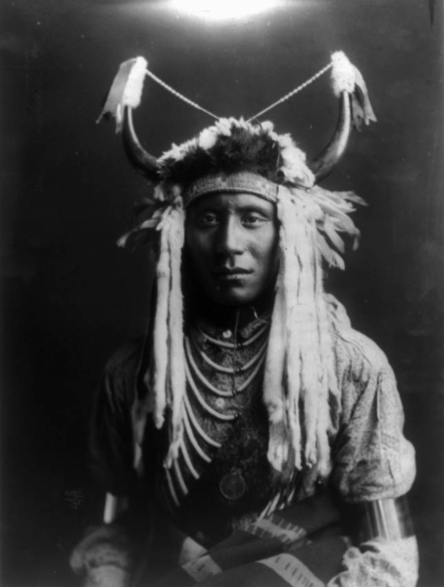 Photograph of Head Carry a Piegan Blackfoot Indian wearing a split horn headdress. Photograph from The North American Indian by Edward S. Curtis.